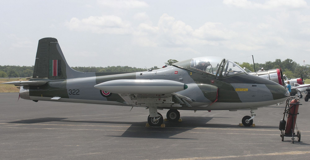 Private BAC 167 Strikemaster Mk 81, N167SM ex Singapore AF 322, Yemen AF 503, in Kenya Air Force livery. 2/27/11, I was informed this plane was involved in a tragic fatal accident north of Poughkeepsie, New York on the 26th. My thoughts and prayers go out to the pilot's family and friends.